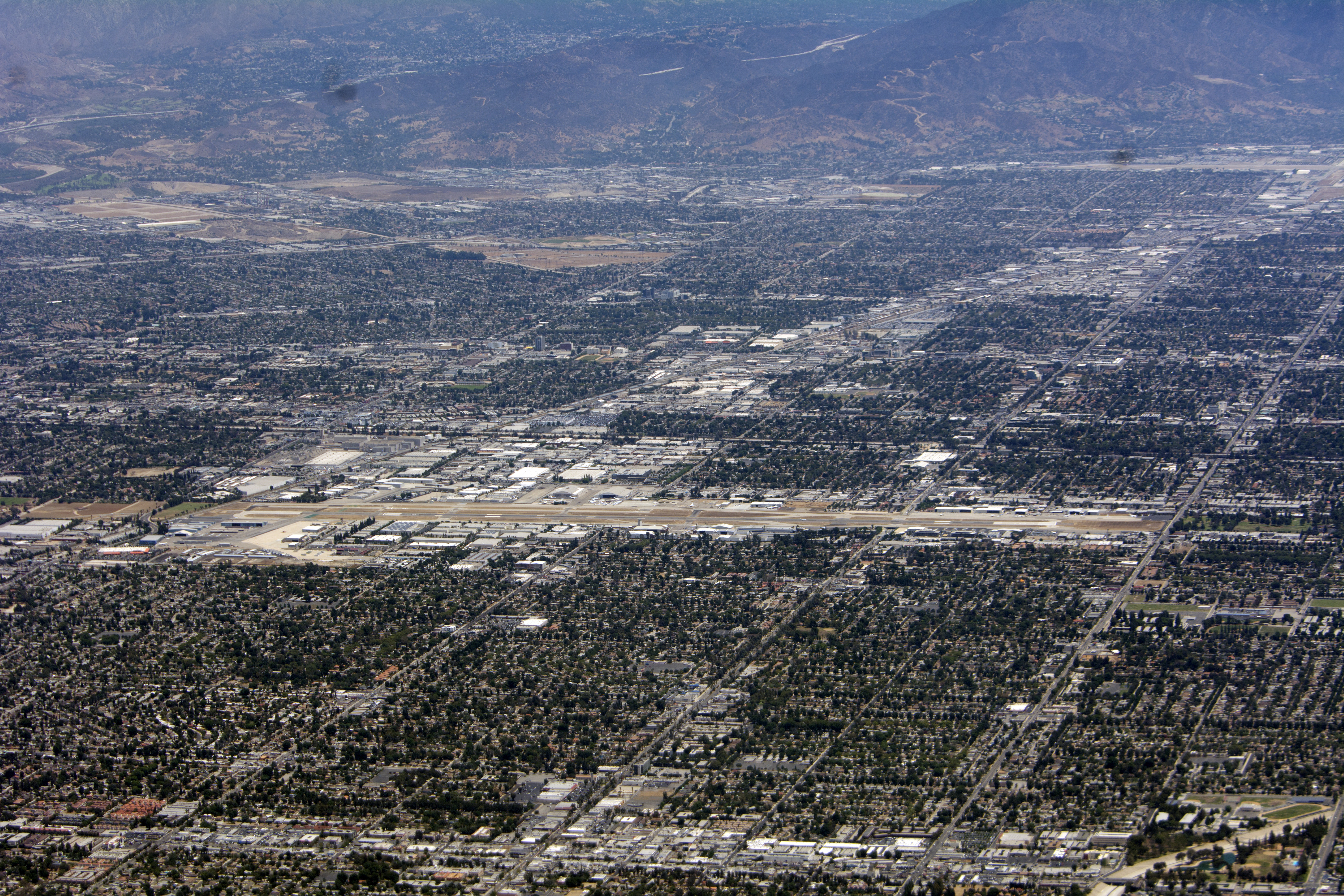 Van Nuys Airport by D Ramey Logan